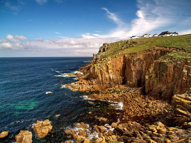 Land's End. The granite cliffs of Land's End, viewed from the south.